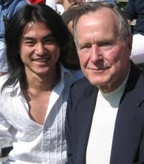 Shin Koyamada meets Geroge Bush Sr at the KickStart Kids charity fundraiser in 2006 in Houston, Texas